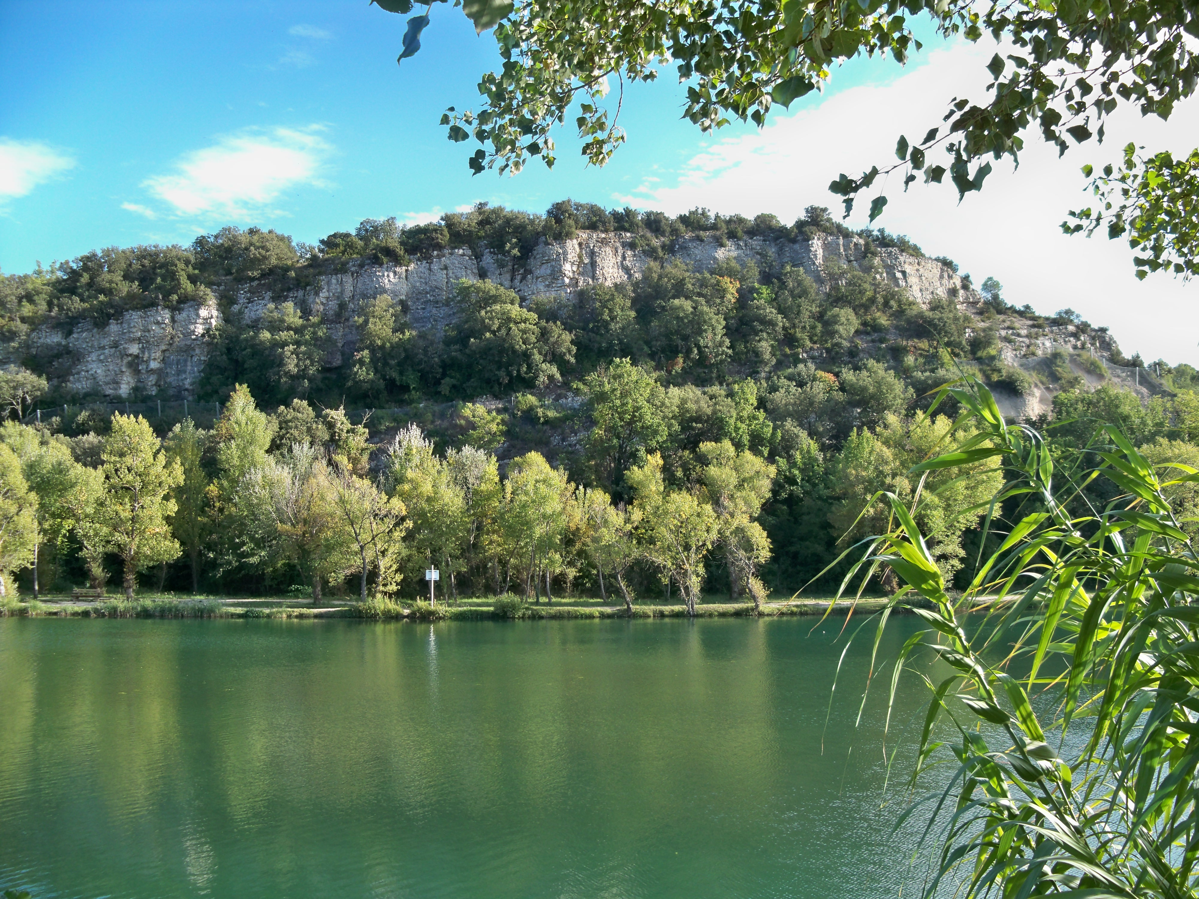 Verdon river near Greoux les Bains